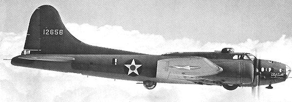 Boeing B-17E Fortress 41-2656, "Chief Seattle"[1] was assigned to the 435th Bombardment Squadron, 19th Bombardment Group on 29 May 1942. Lost over Buna, Paupa New Guinea, 14 August 1942 on a reconnaissance mission, crew MIA.